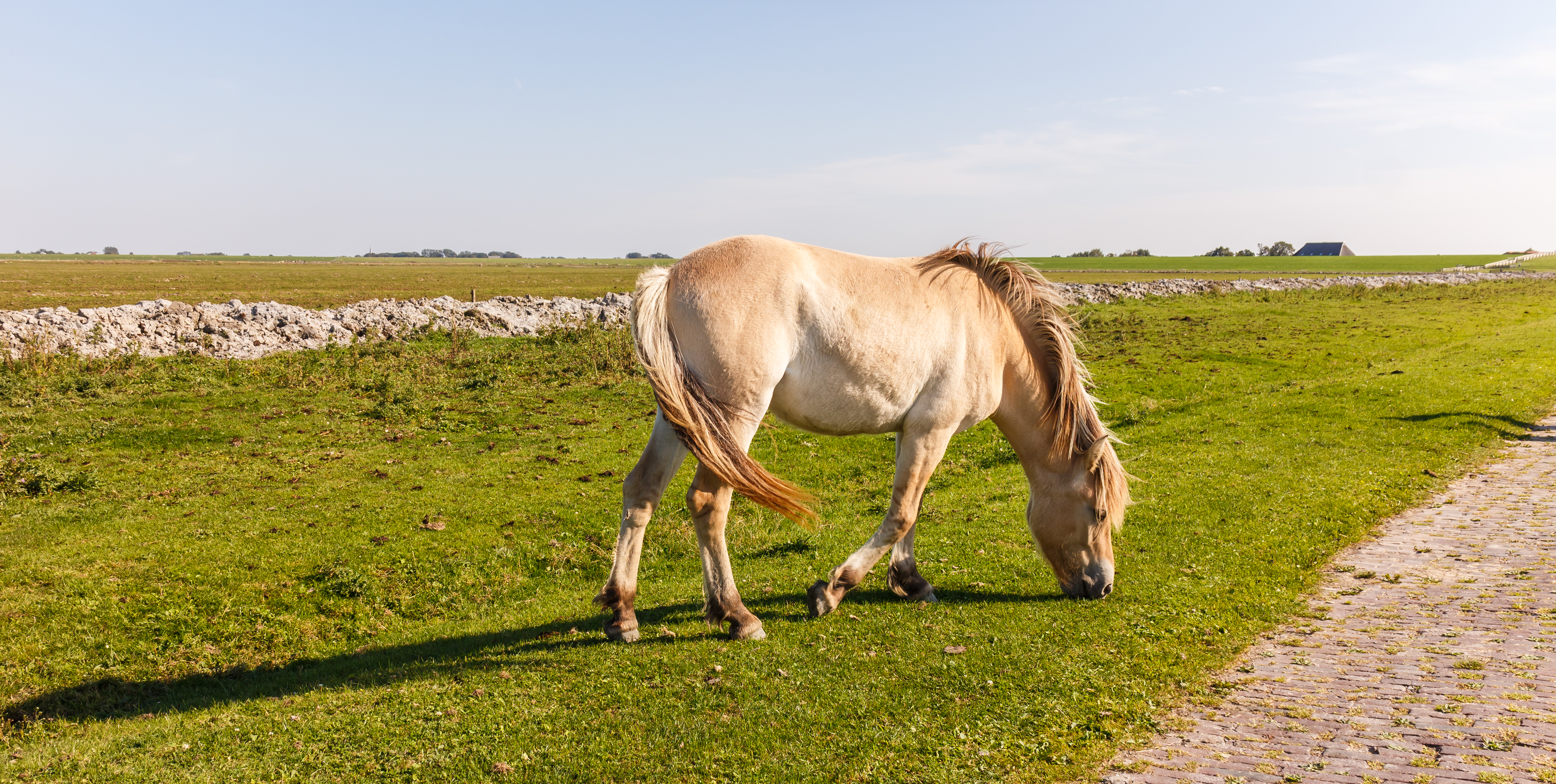 Horses provide grazing. Location, Noarderleech Profince Friesland in the Netherlands